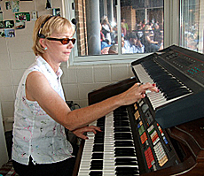 Chicago White Sox organist Nancy Faust in the organ booth at Cellular Field. Many organists are being replaced by recorded CDs at major league baseball games.